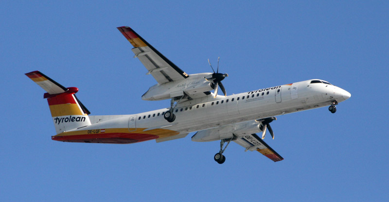 Tyrolean De Havilland Canada Dash 8 OE-LGF landing at Vilnius Airport (WNO)